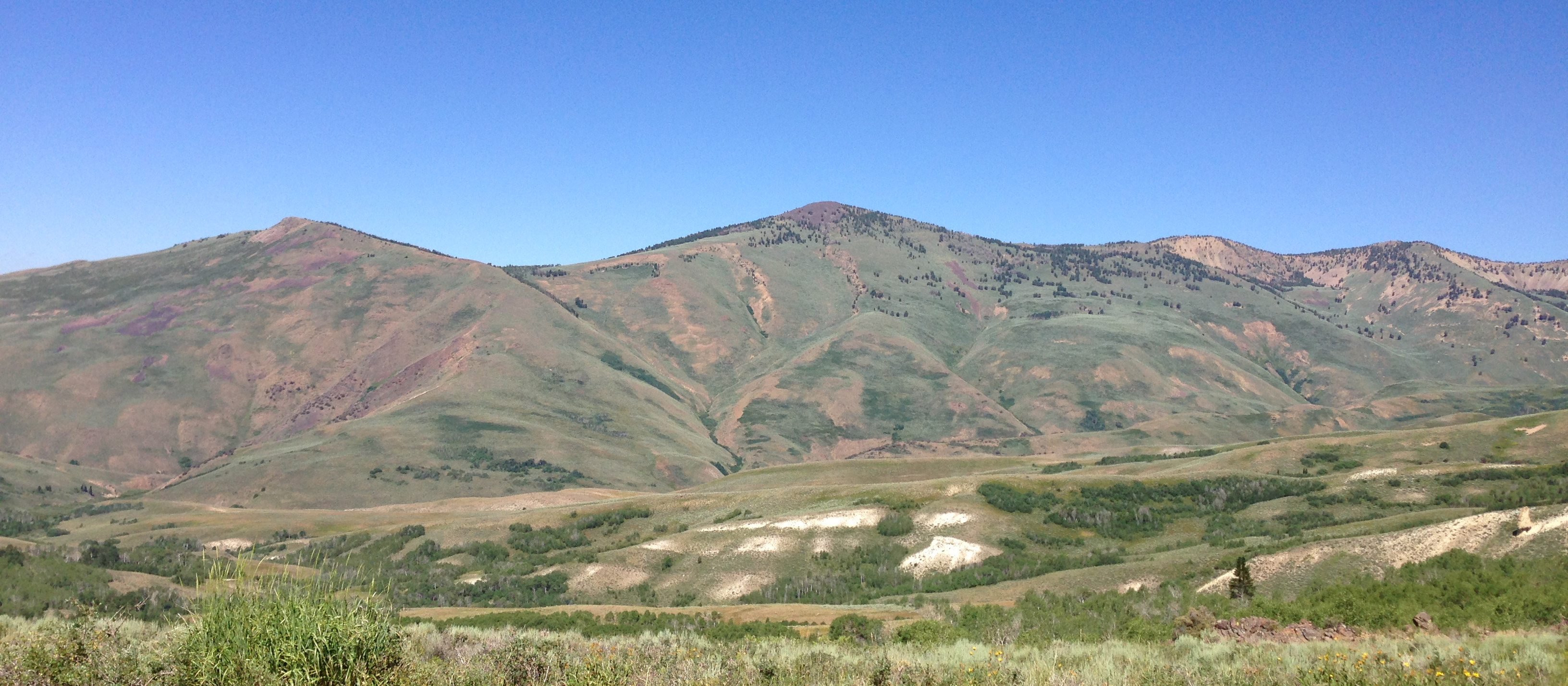 View of the Copper Mountains from Charleston-Jarbidge Road (Elko County Route 748)